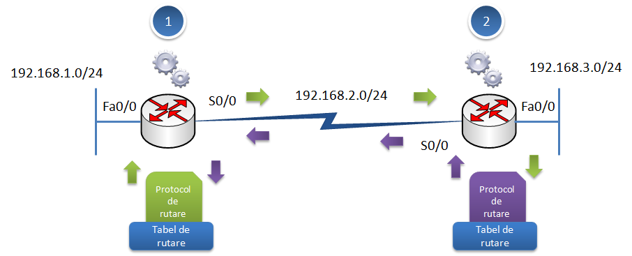 Graphical presentation of routing protocol operation